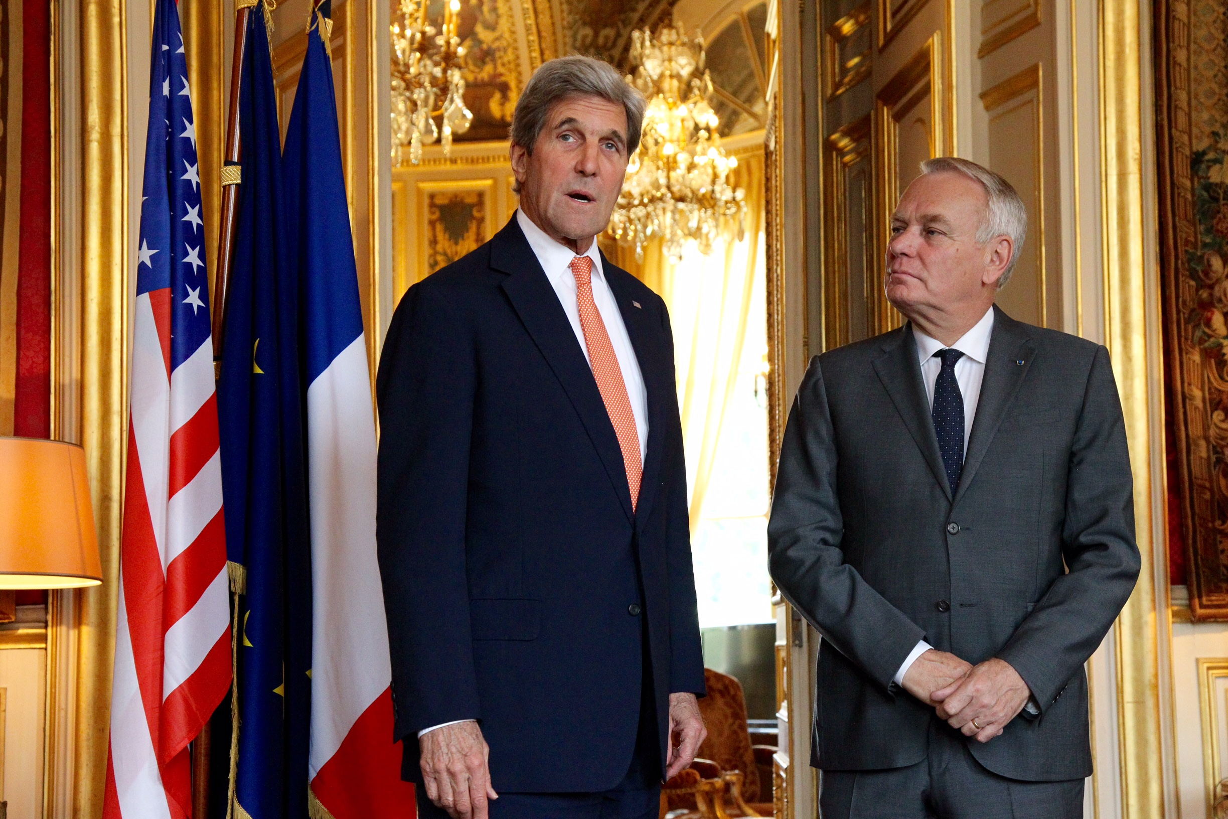 U.S. Secretary of State John Kerry meets with French Foreign Minister Jean-Marc Ayrault at the French Ministry of Foreign Affairs in Paris, France on July 30, 2016. [State Department Photo/Public Domain]